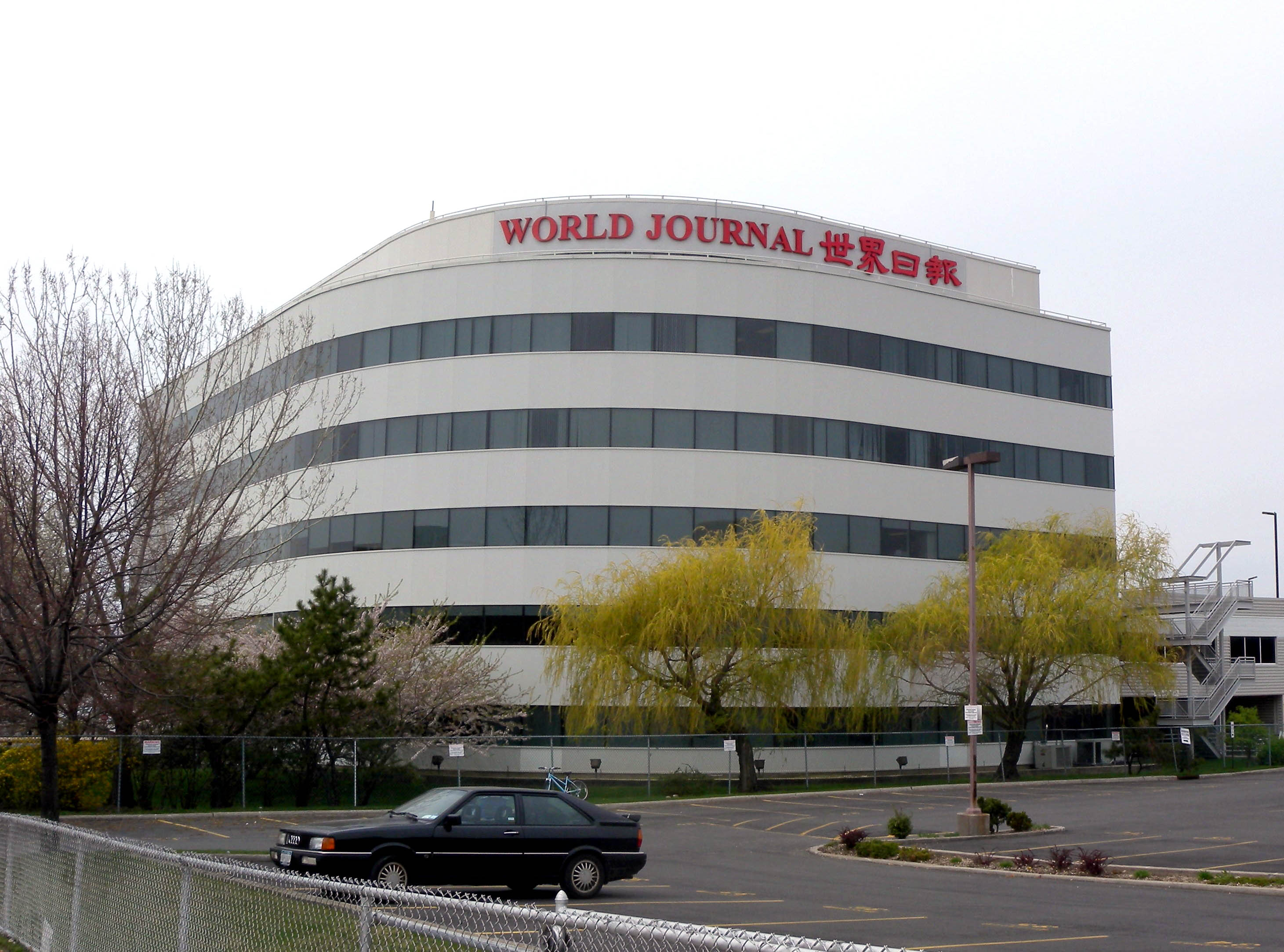 World Journal headquarters Looking northwest from 20th Avenue at World Journal office in Queens on a cloudy midday.